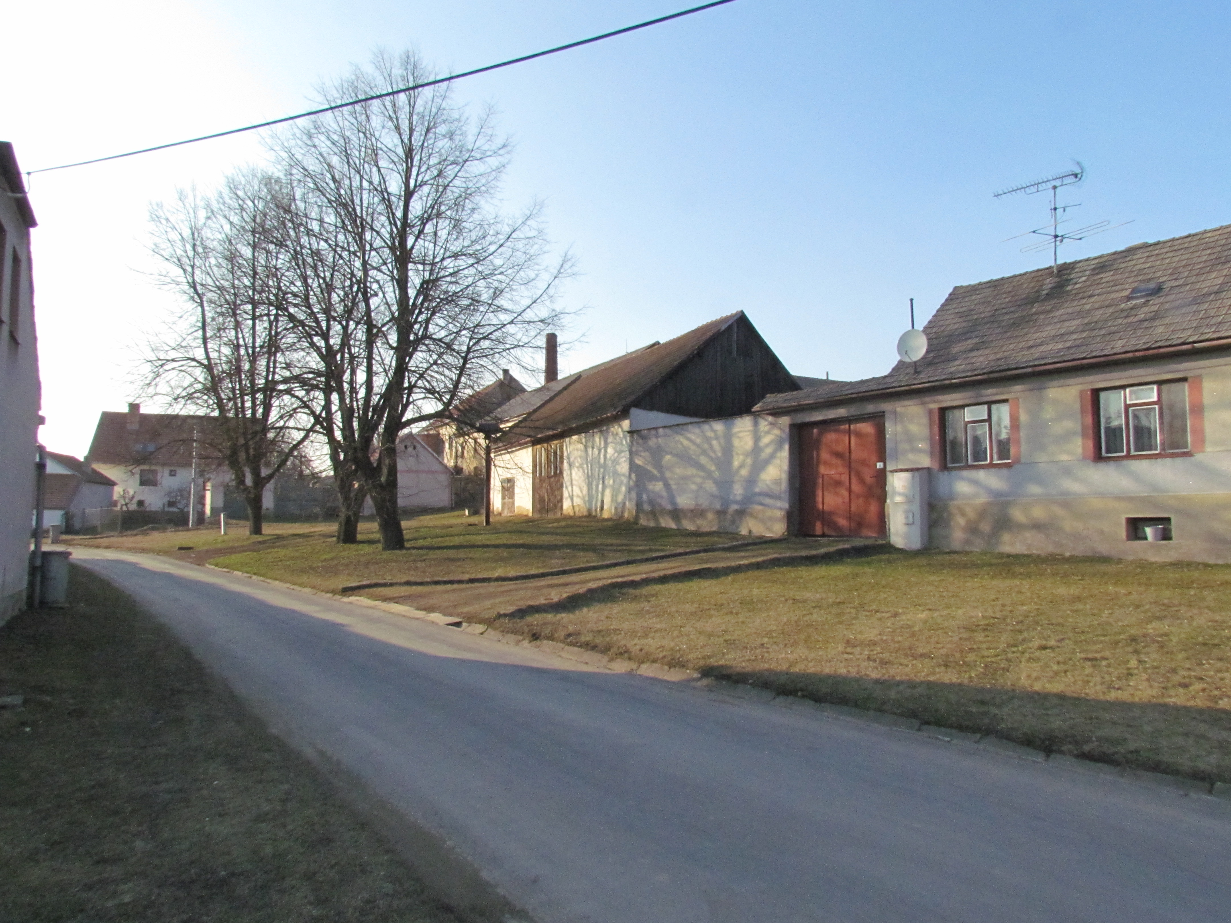 Center of Slavičky, Třebíč District.